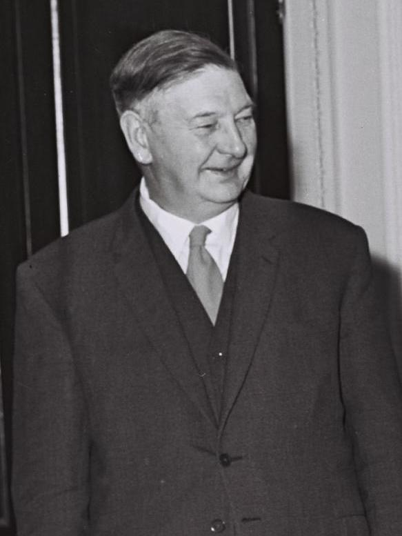 L-R: TUC CHAIRMAN LORD COLLISON, SECR. GEN. WOODCOK, DEP. CHAIRMAN MR. LOWTHIN, P.M. ESHKOL, ASSISTANT SECR. GEN. VICTOR FEATHER AT THE CLARIDGES HOTEL IN LONDON.